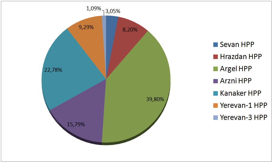 Chart flag includes arm: Սևան-Հրազդան կասկադի ՀԷԿ-երի դիագրամ